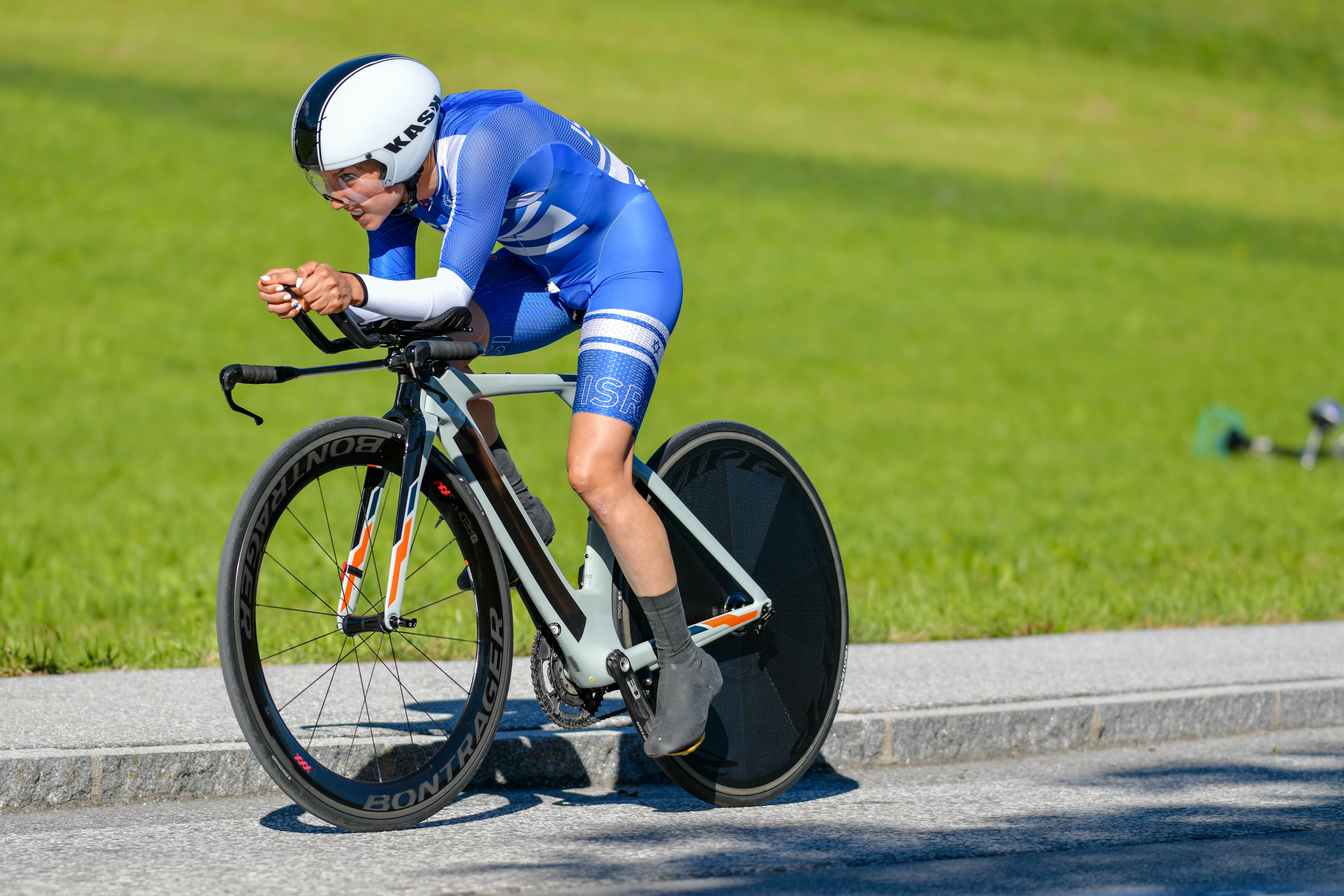 2018 UCI Road World Championships Innsbruck/Tirol Women Elite Individual Time Trial. Picture shows: Omer Shapira of Israel